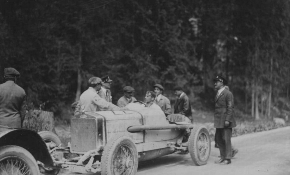 3rd International Tatra Rally, Poland, August 1930. Prince Liechtenstein in Gräf & Stift.